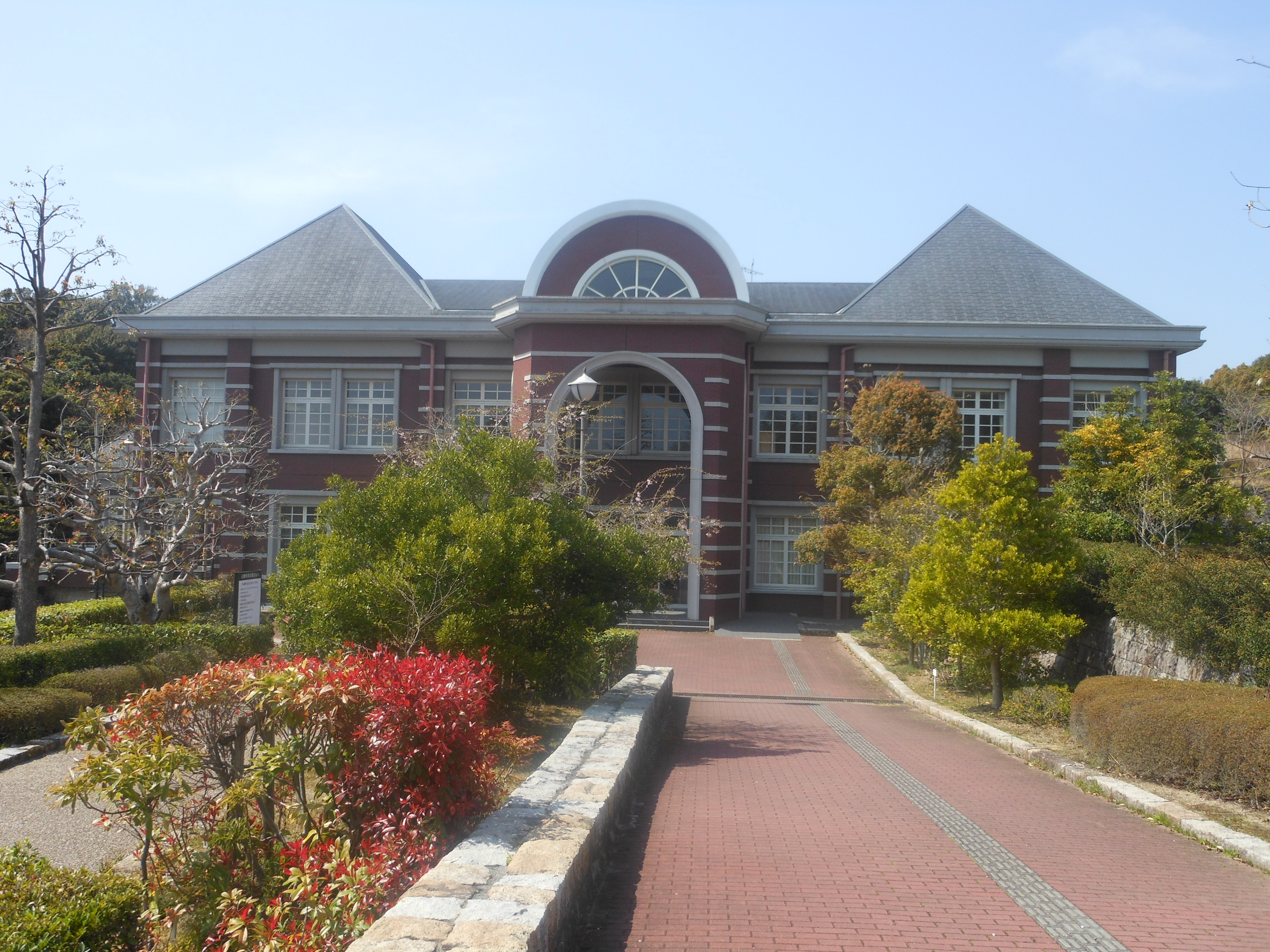 This is a library in Shima,Mie,Japan.